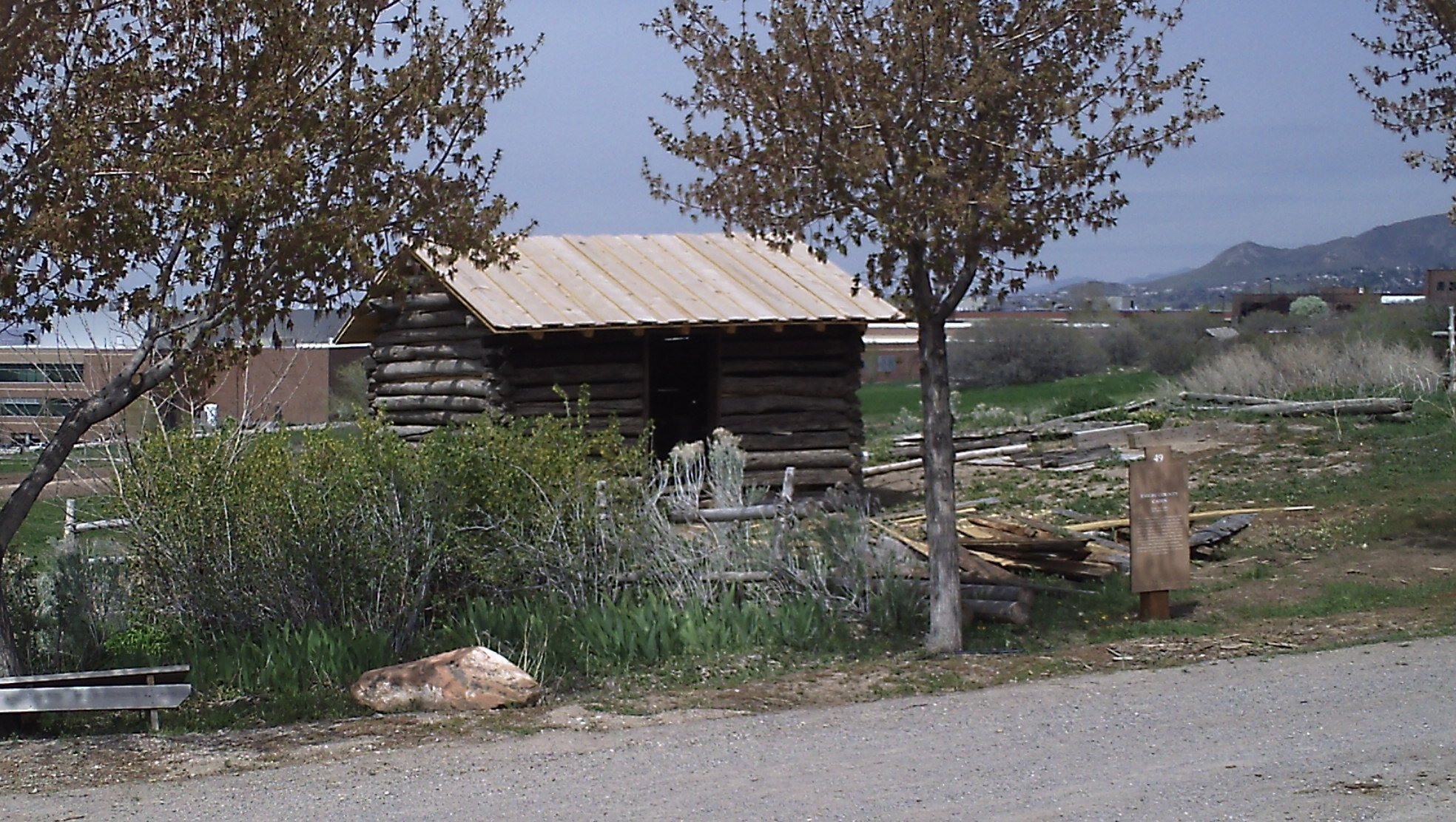 The Emery County Cabin, the earliest existent building from Emery, Utah, now relocated to This Is The Place Heritage Park in Salt Lake City.